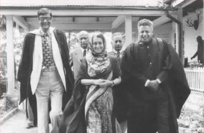 Mr Dang used to call her Indu. He was Rajiv Gandhi's hallmaster at Doon. Had a famous trick at SPS if DM etc called on him at Rector's office: would pick up the phone while the guy was waiting, and pretend talk to Indu, sharing the old gas etc.